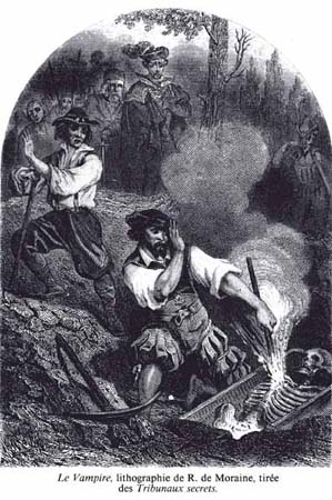 "Le Vampire", engraving.